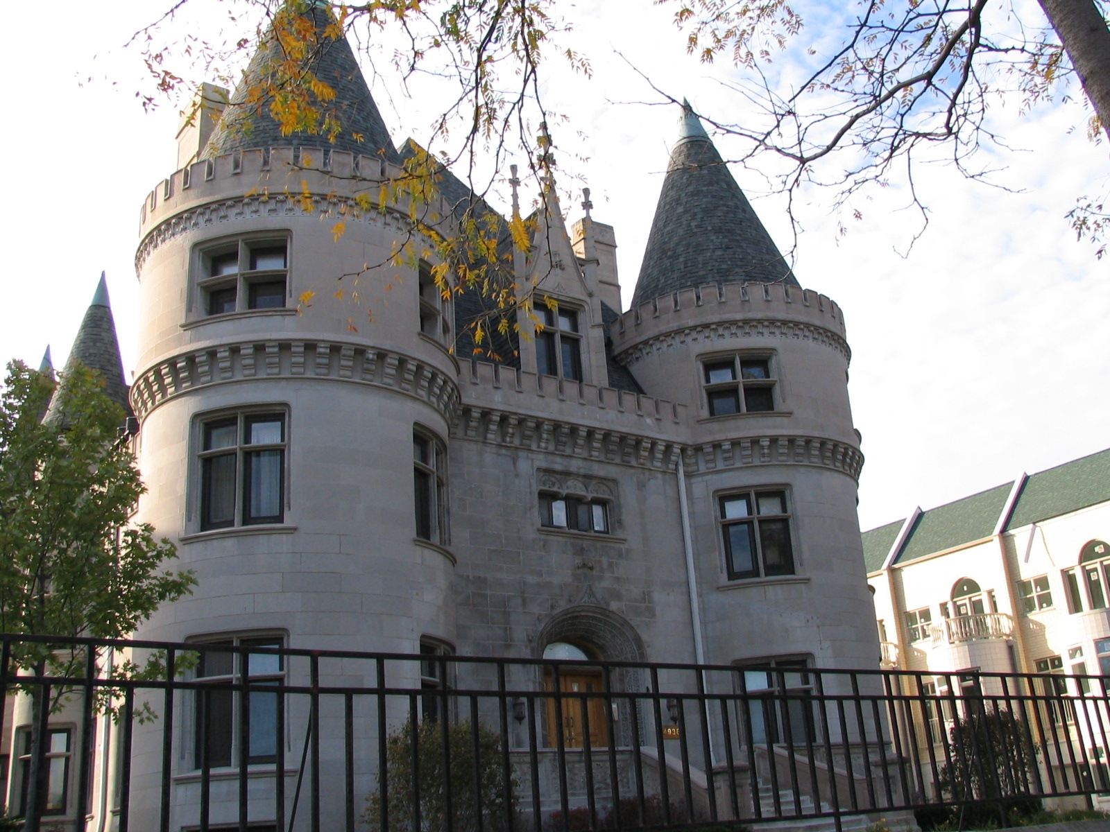 East facade of the John A. McGill house, 4938 S. Drexel Blvd., Chicago, IL. Henry Ives Cobb, architect. 1892